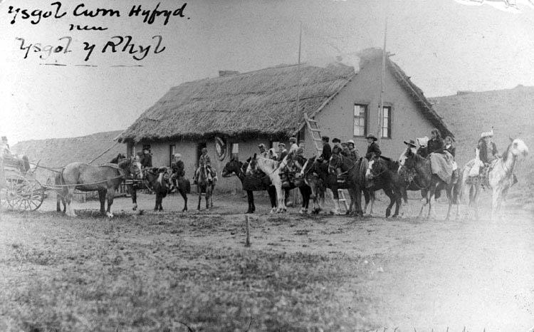 Cwm Hyfryd School, Chubut. The school operated solely through the medium of Welsh until they came under the control of the Argentine government, after which lessons were taught in Spanish.